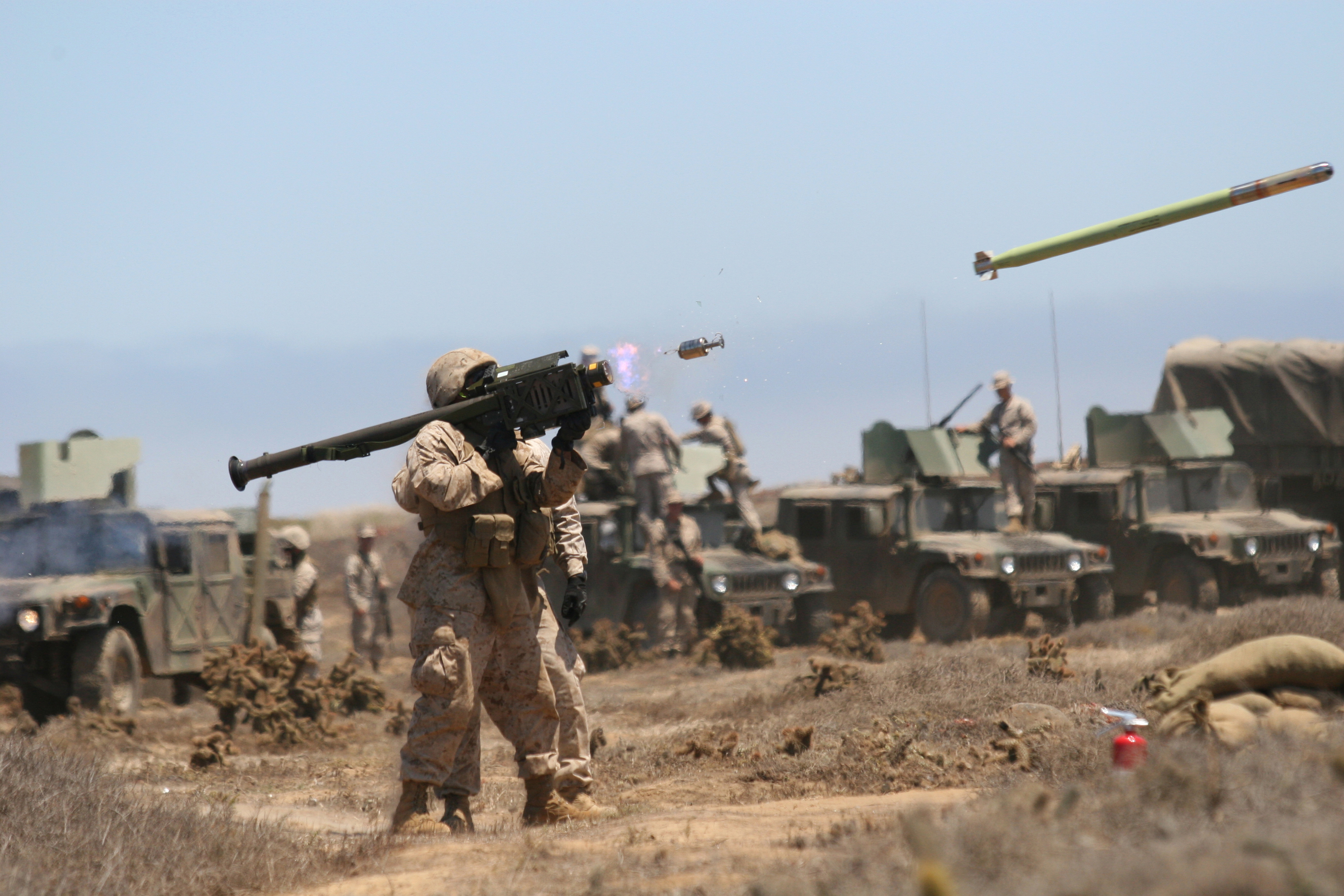 Sgt. Joshua J. Stepp a firing pit noncommissioned officer with 3rd Low Altitude Air Defense Battalion coaches a Marine as he fires an FIM-92A Stinger missile at an unmanned aerial target during training at San Clemente Island, July 28. The unmanned aerial targets contained a catalytic converter that provided a heat signature necessary for the missile to lock on to. (Official U.S. Marine Corp photo by Cpl. Christopher O'Quin)(Released)